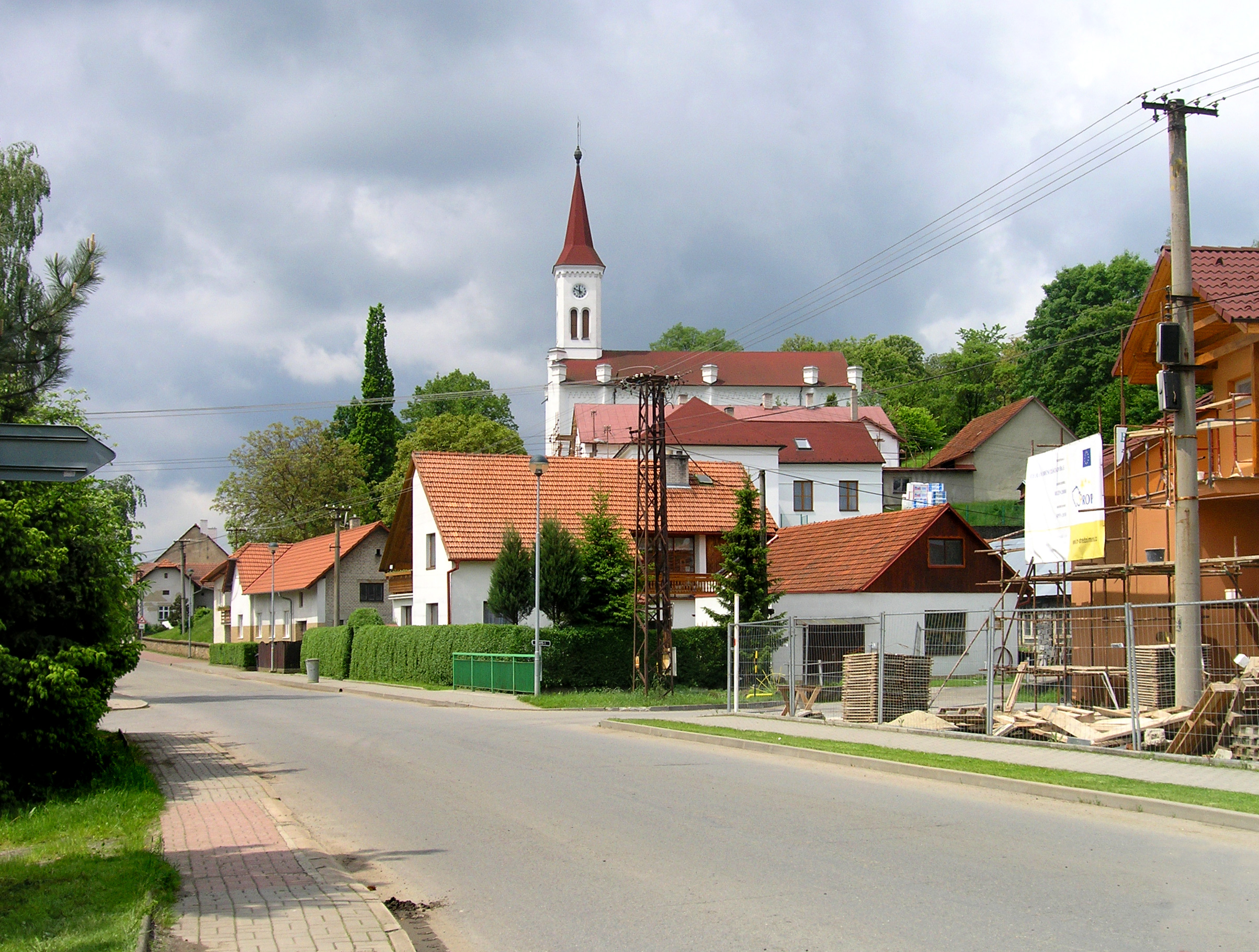 Church in Zádveřicíce, part of Zádveřice-Raková village, Czech Republic